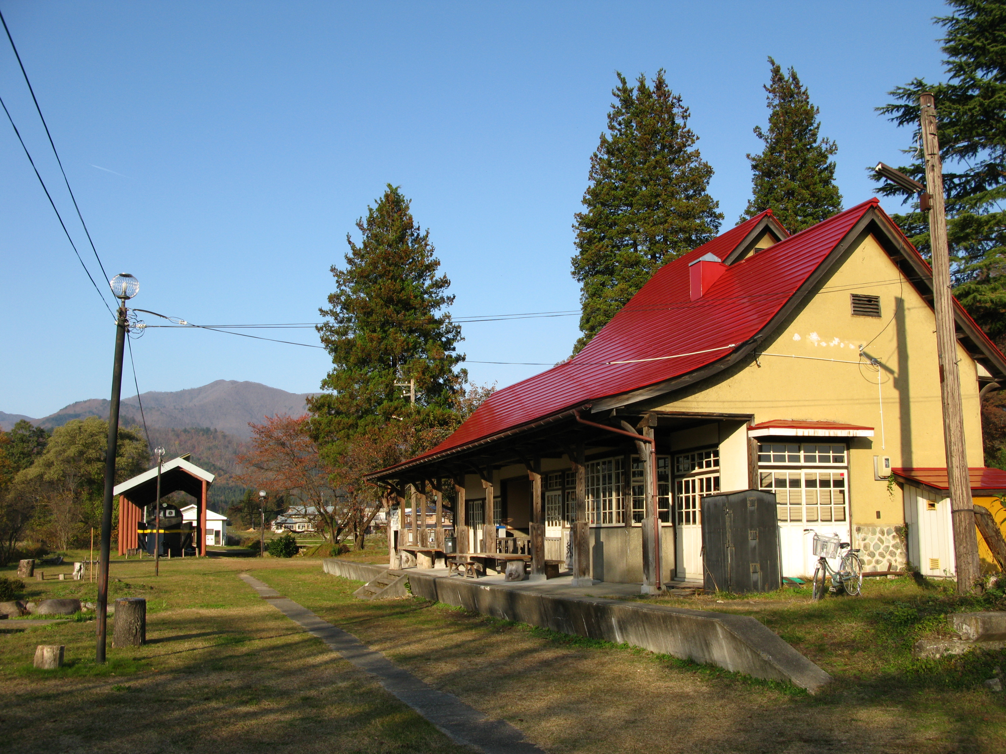 Nittyu line memorial, Kitakata city, Fukushima pref., Japan.